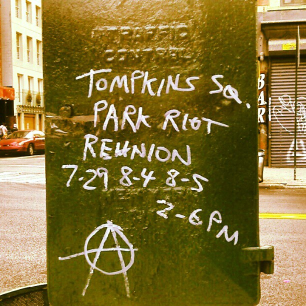 Graffiti on a traffic light box in New York's East Village advertising the 1988 Tompkins Square Park Riot.